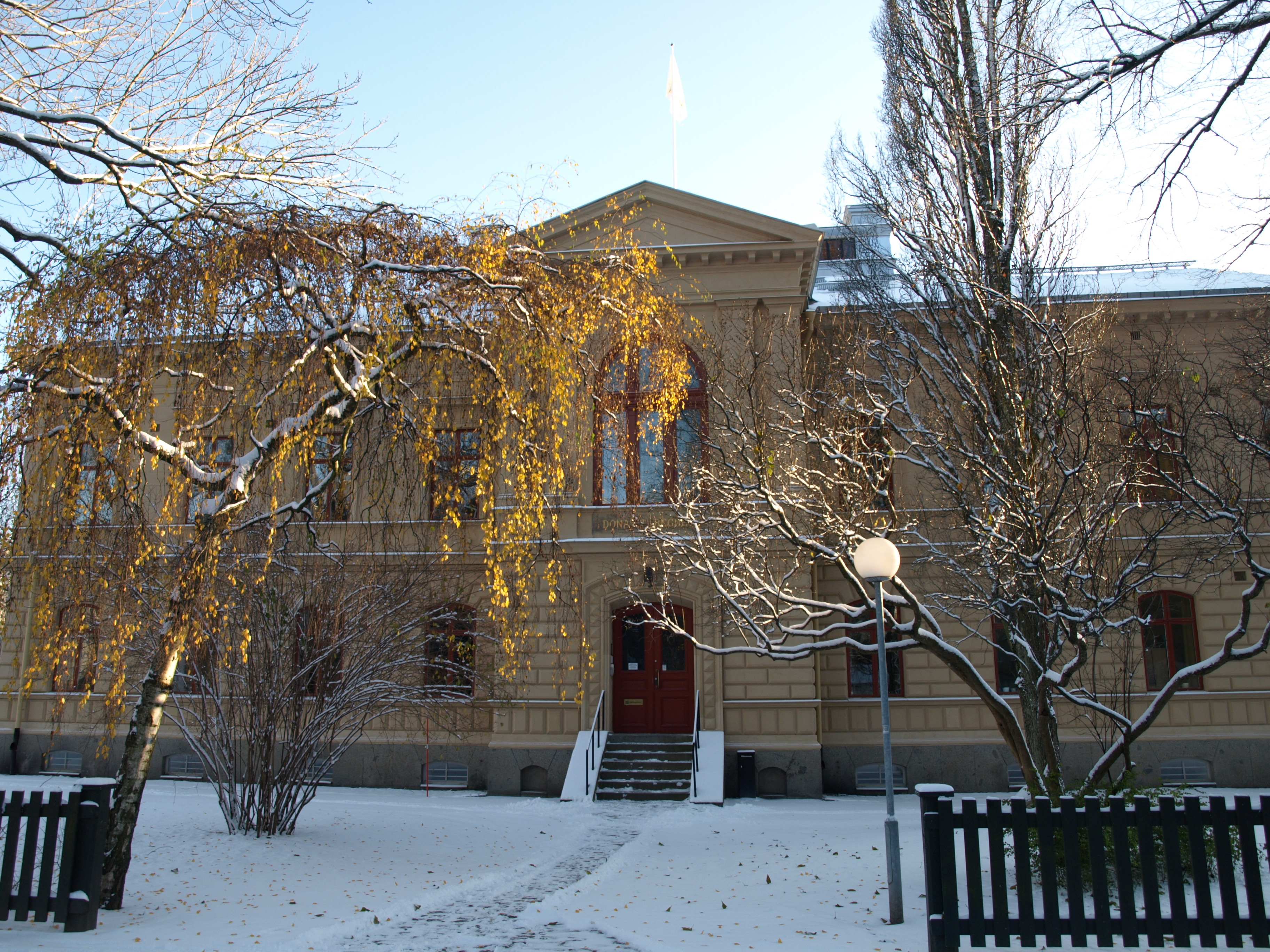 The house Regnellianum in Uppsala, Sweden. Previously used by Uppsala University.